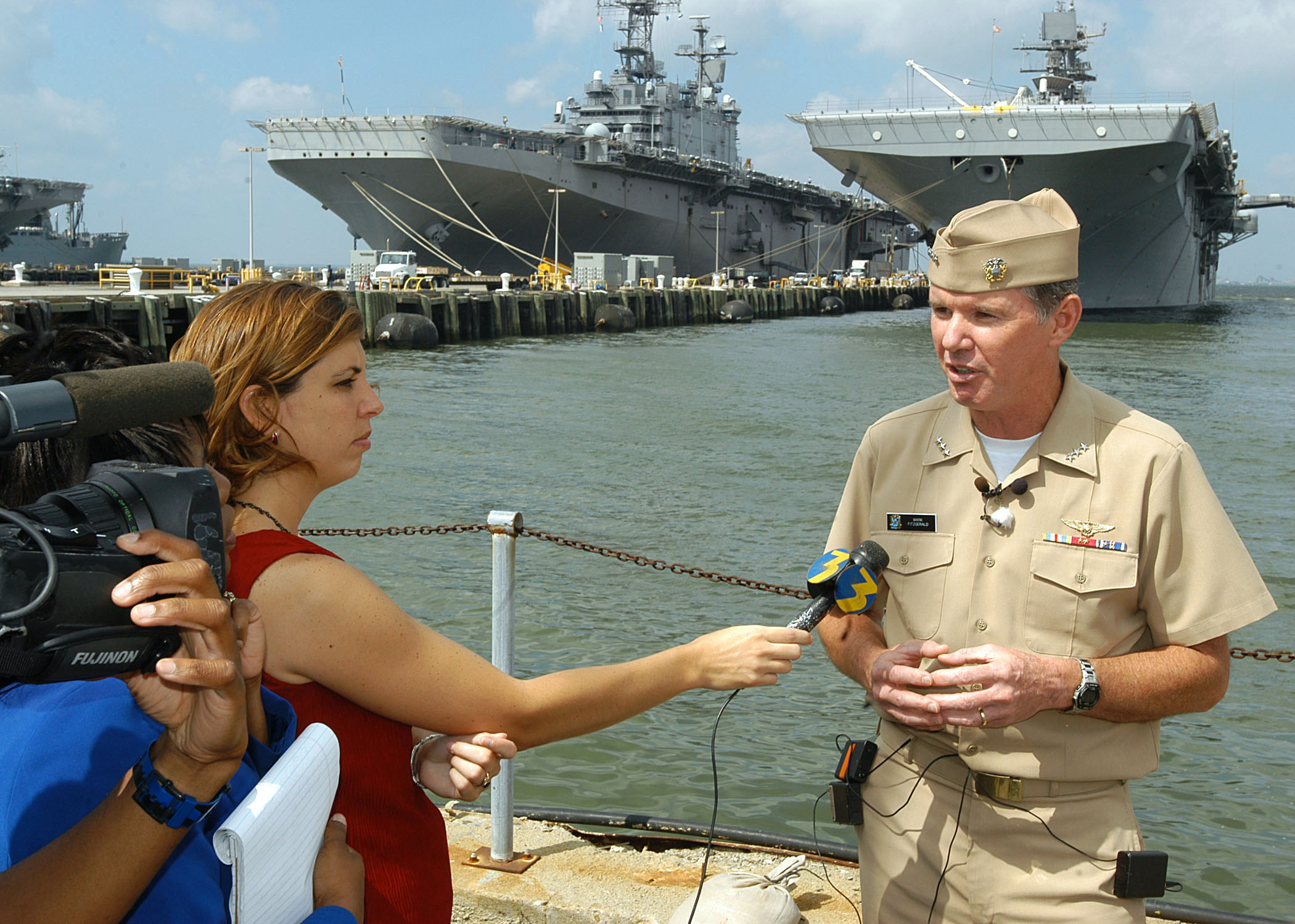 Norfolk, Va. (Aug. 31, 2005) - Commander, Second Fleet, Vice Adm. Mark Fitzgerald talks with WTKR Channel 3 reporter Stacy Davis during a press conference prior to the amphibious assault ship USS Iwo Jima and three other Hampton Roads-based amphibious ships getting underway today from Naval Station Norfolk to head to areas off the Gulf Coast as part of the Hurricane Katrina relief effort. The four ships bring with them six Disaster Relief Teams (DRTs) that include amphibious construction equipment, medical personnel and associated supplies to assist with the relief effort. The Navy's involvement in the humanitarian assistance operations led by the Federal Emergency Management Agency (FEMA) in conjunction with the Department of Defense. U.S. Navy photo by Photographer's Mate 1st Class Gregory A. Roberts (RELEASED)